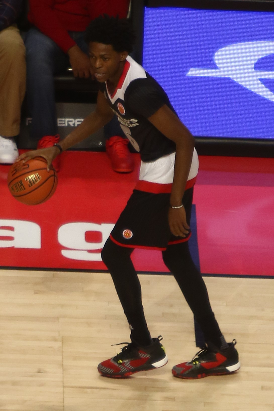 De'Aaron Fox at the w:2016 McDonald's All-American Boys Game